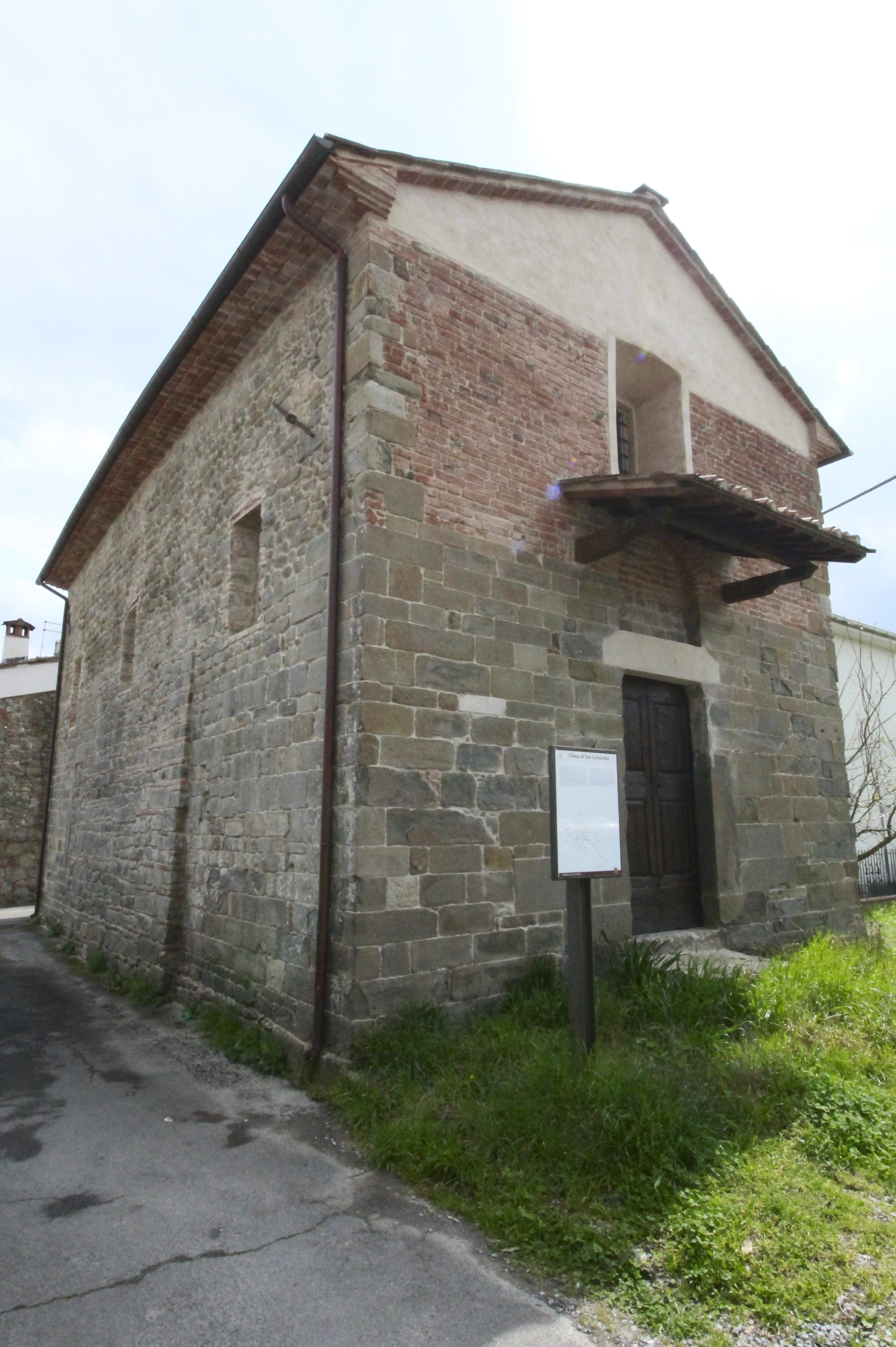 Church San Concordio di Rimortoli, San Colombano, hamlet of Capannori, Province of Lucca, Tuscany, Italy